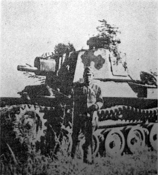 Imperial Japanese Army Experimental Type 1 gun tank Ho-I prototype.